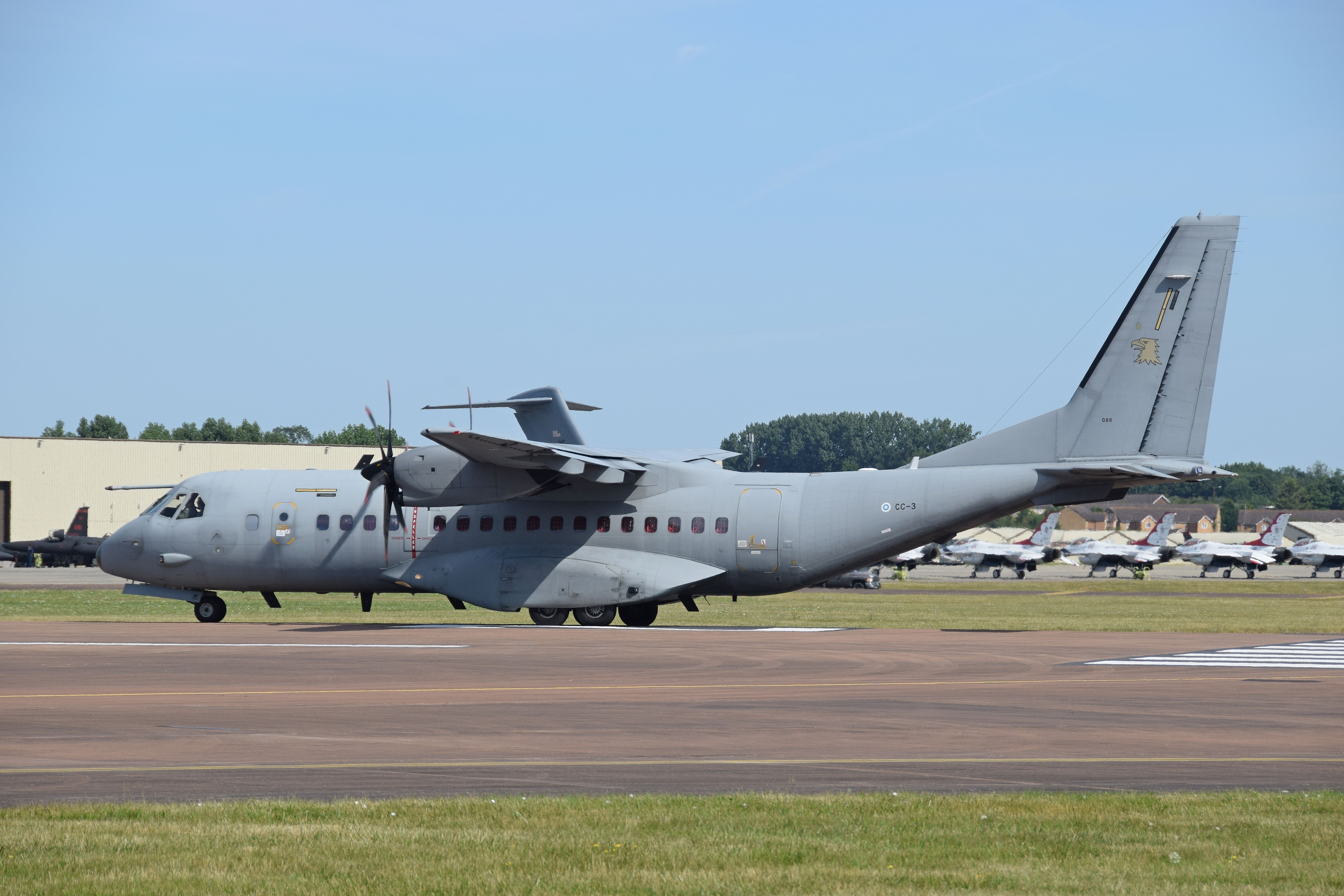 CASA C-295 (code CC-3) of the Finnish Air Force departs the 2017 Royal International Air Tattoo, RAF Fairford, England.